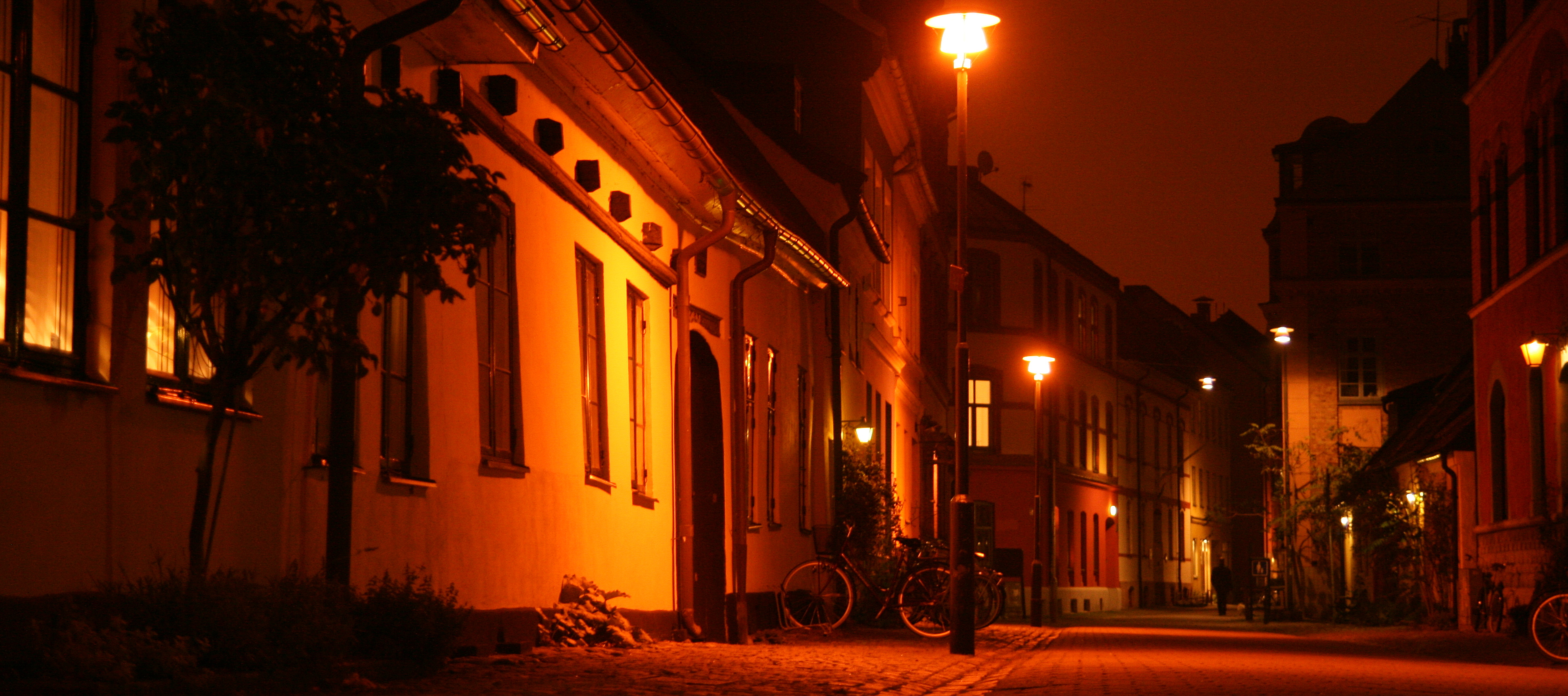 A view of Jacob Nilsgatan/Hyregatan in Gamla Väster in Malmö, Sweden. To the left is "Annellska huset", built 1705.